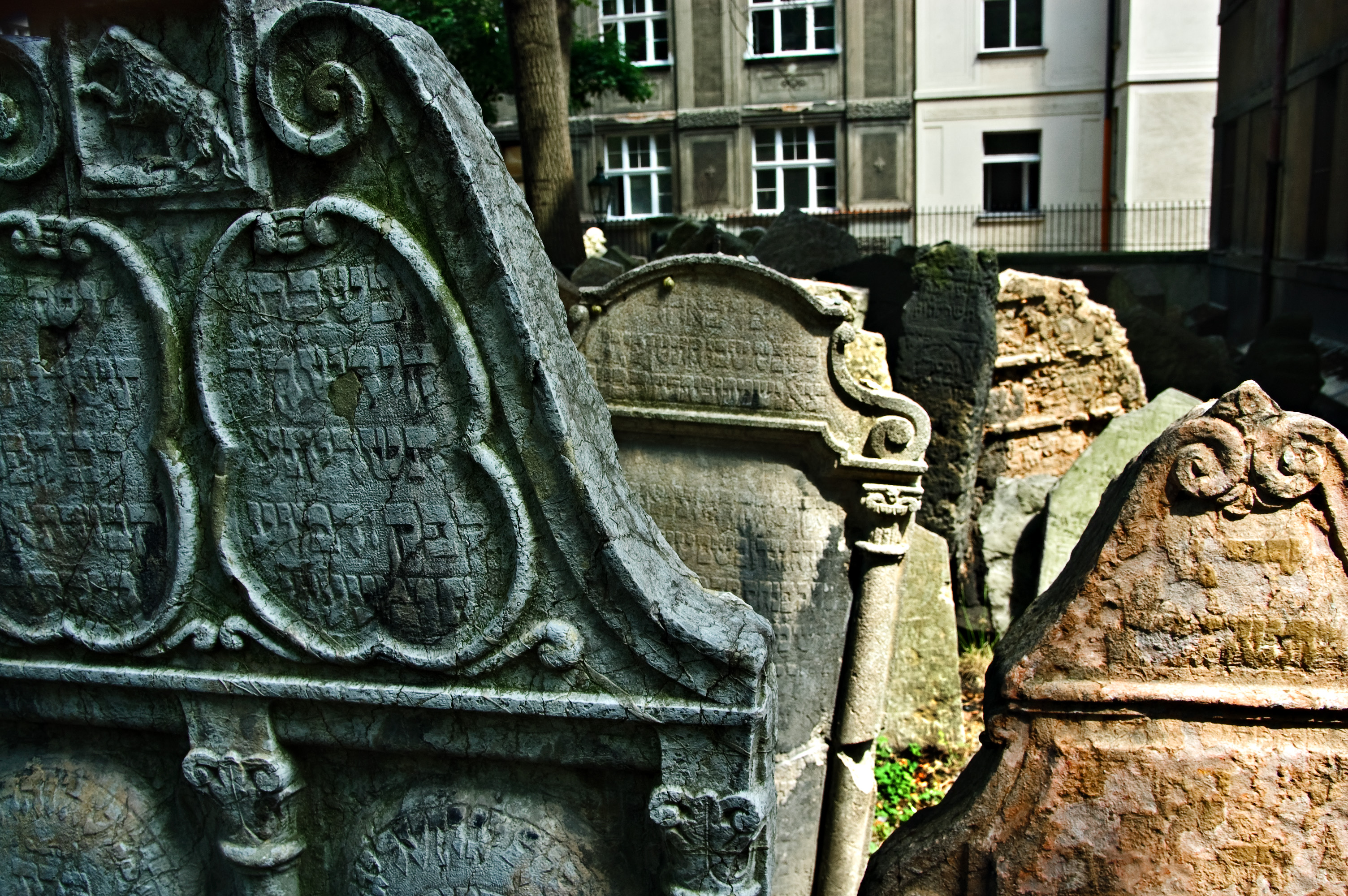 Tombstones in the Old Jewish Cemetery in Josefov in Prague, the Czech Republic.